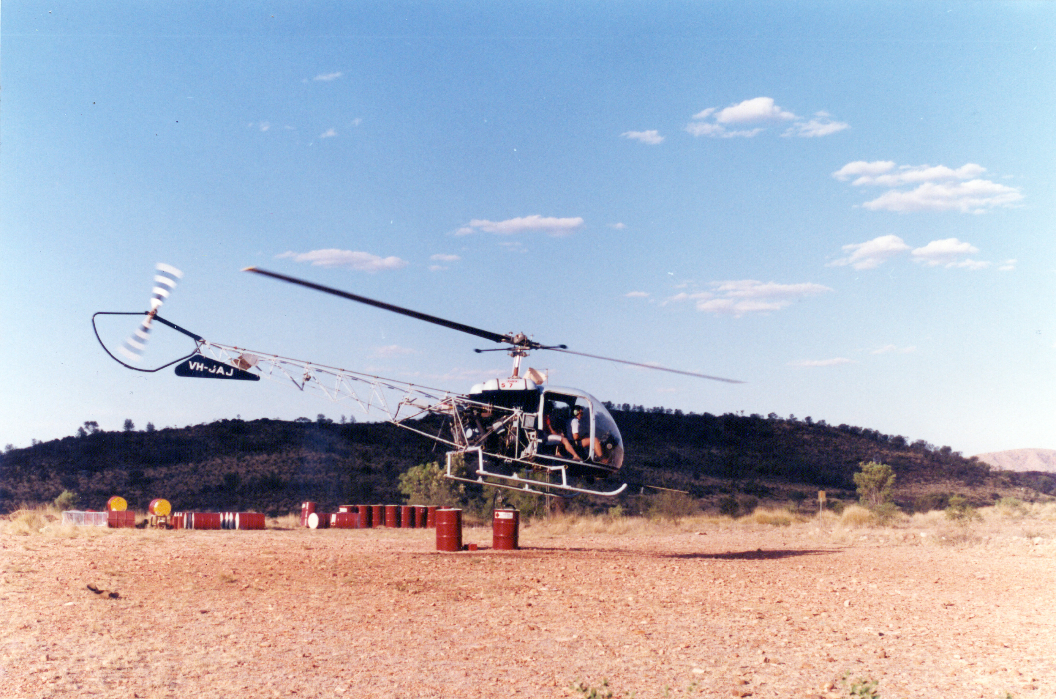 Kawasaki Heavy Industries 47G3B-KH4 (KH-4) CN 2188, built 1971. Taking off from Glen Helen, West MacDonnell Ranges, Northern Territory, Australia for a scenic flight over Ormiston Gorge, Mount Sonder and Glen Helen Gorge in 1991.